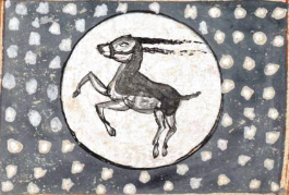 moon of 14 auspicious dreams in Jainism